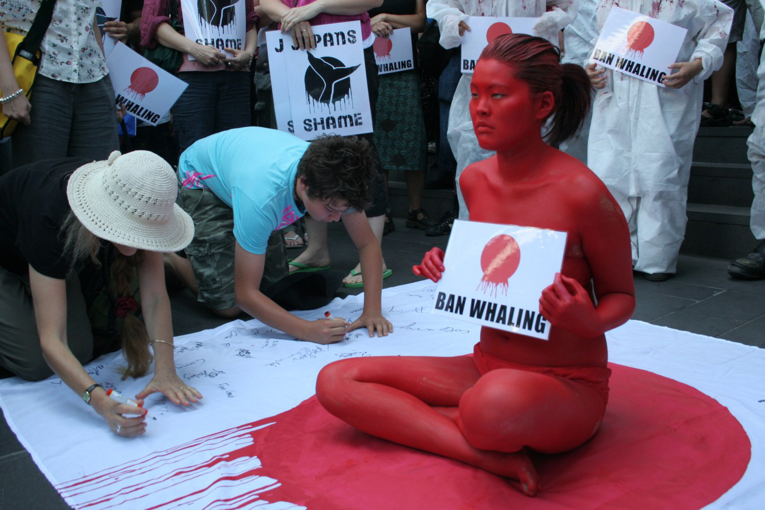 On January 3, 2007 Animal Liberation Victoria organised a lunchtime protest against Japanese whaling outside the building housing the Japanese Consulate - 360 Elizabeth street, Melbourne. About 250 people attended, "the biggest turn up we've ever had" said an Animal Liberation spokeperson. Jamie Yew, all dyed in red on a Japanese flag with the sun dripping "blood" made a photogenic piece of street theatre for media photographers. A gong was struck 985 times in about 40 minutes to symbolise the 985 whales being slaughtered by Japan this season. Whales can sometimes take up to 40 minutes to die in a very cruel and inhumane way from the explosive harpoons. People were invited to sign the Japanese flag as a symbol of their protest.